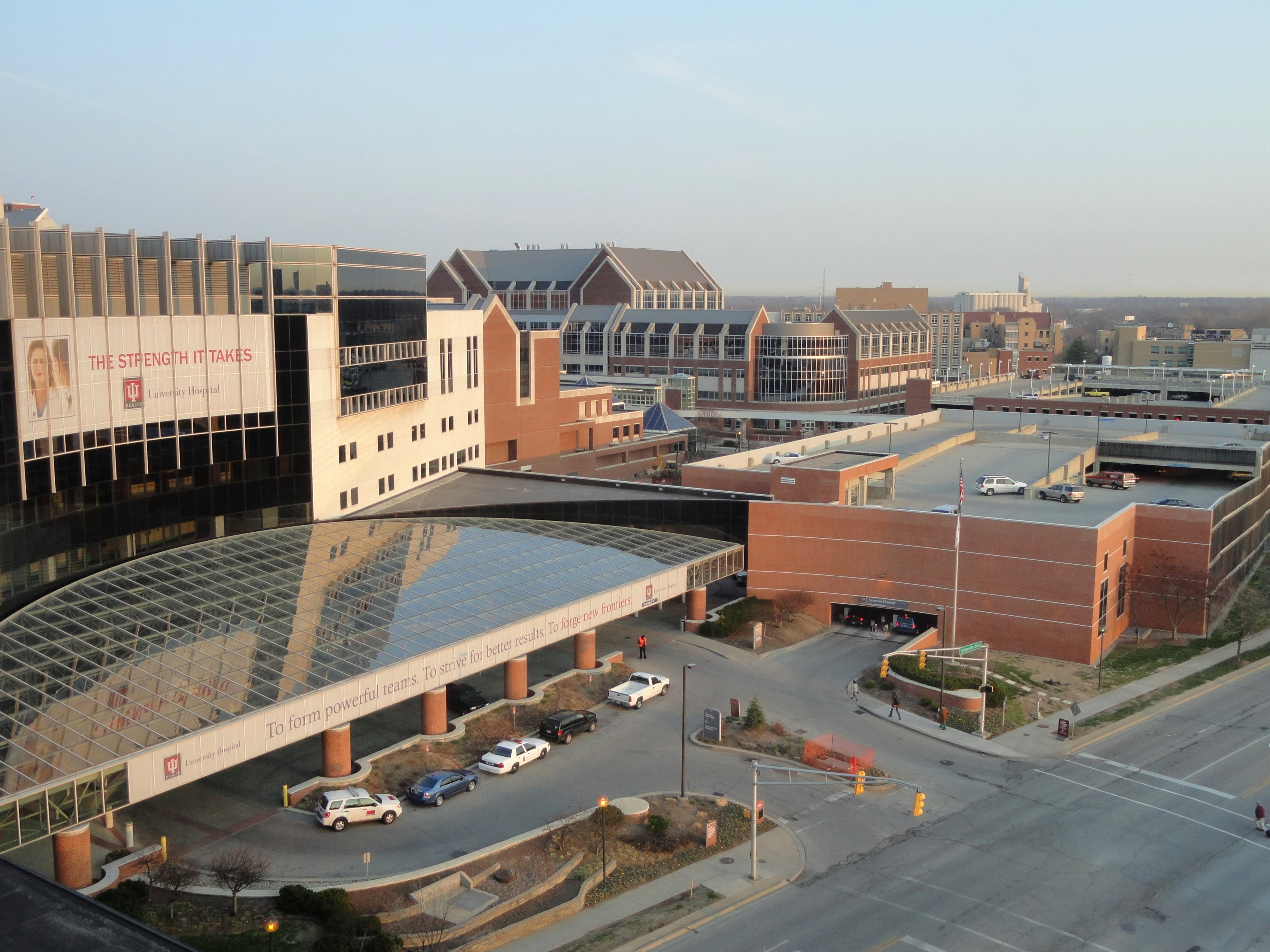 Indiana University-Purdue University Indianapolis (IUPUI) campus, Indianapolis, Indiana, USA.